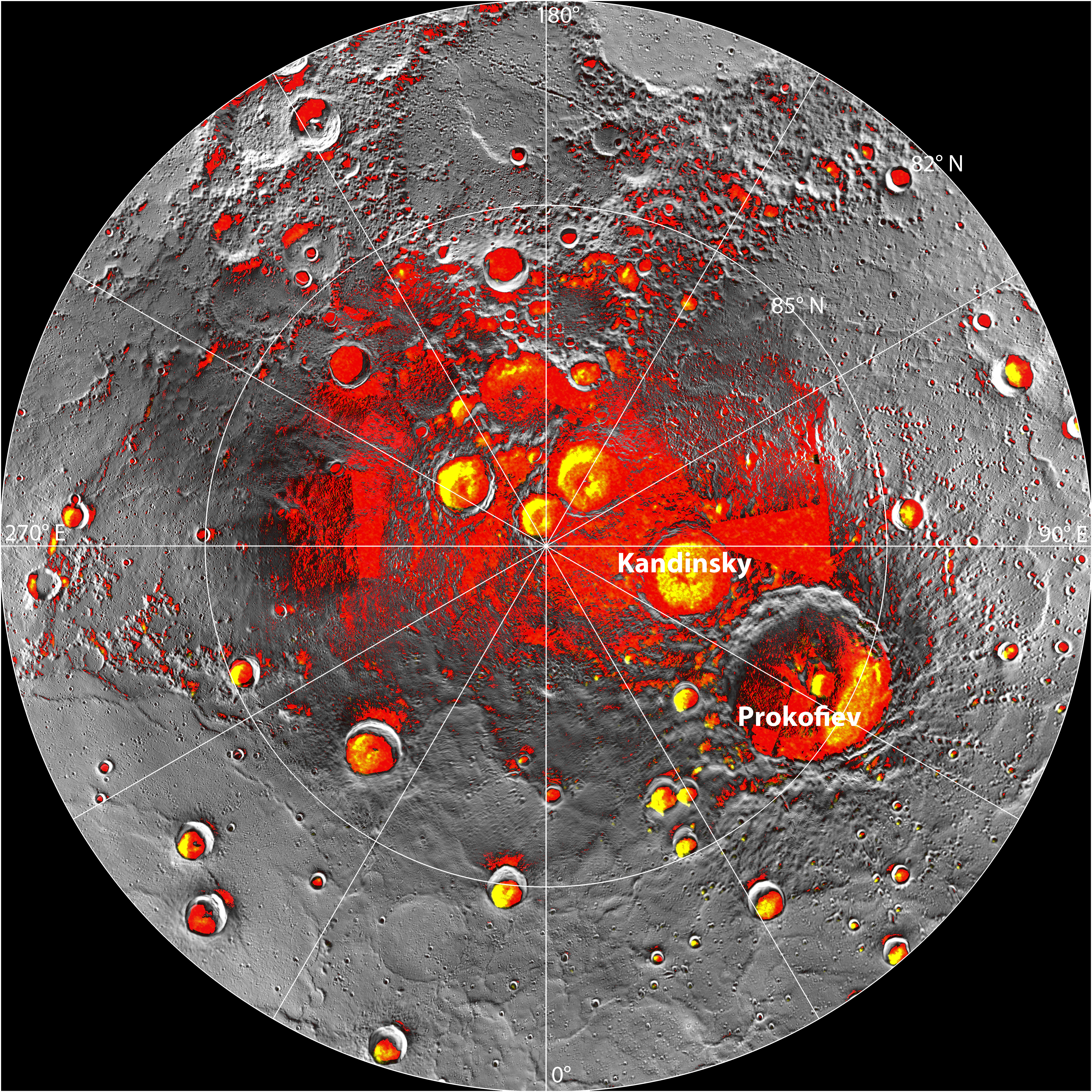 Shown in red are areas of Mercury’s north polar region that are in shadow in all images acquired by MESSENGER to date. Image coverage, and mapping of shadows, is incomplete near the pole. The polar deposits imaged by Earth-based radar are in yellow (from Image 2.1), and the background image is the mosaic of MESSENGER images from Image 2.2. This comparison indicates that all of the polar deposits imaged by Earth-based radar are located in areas of persistent shadow as documented by MESSENGER images.